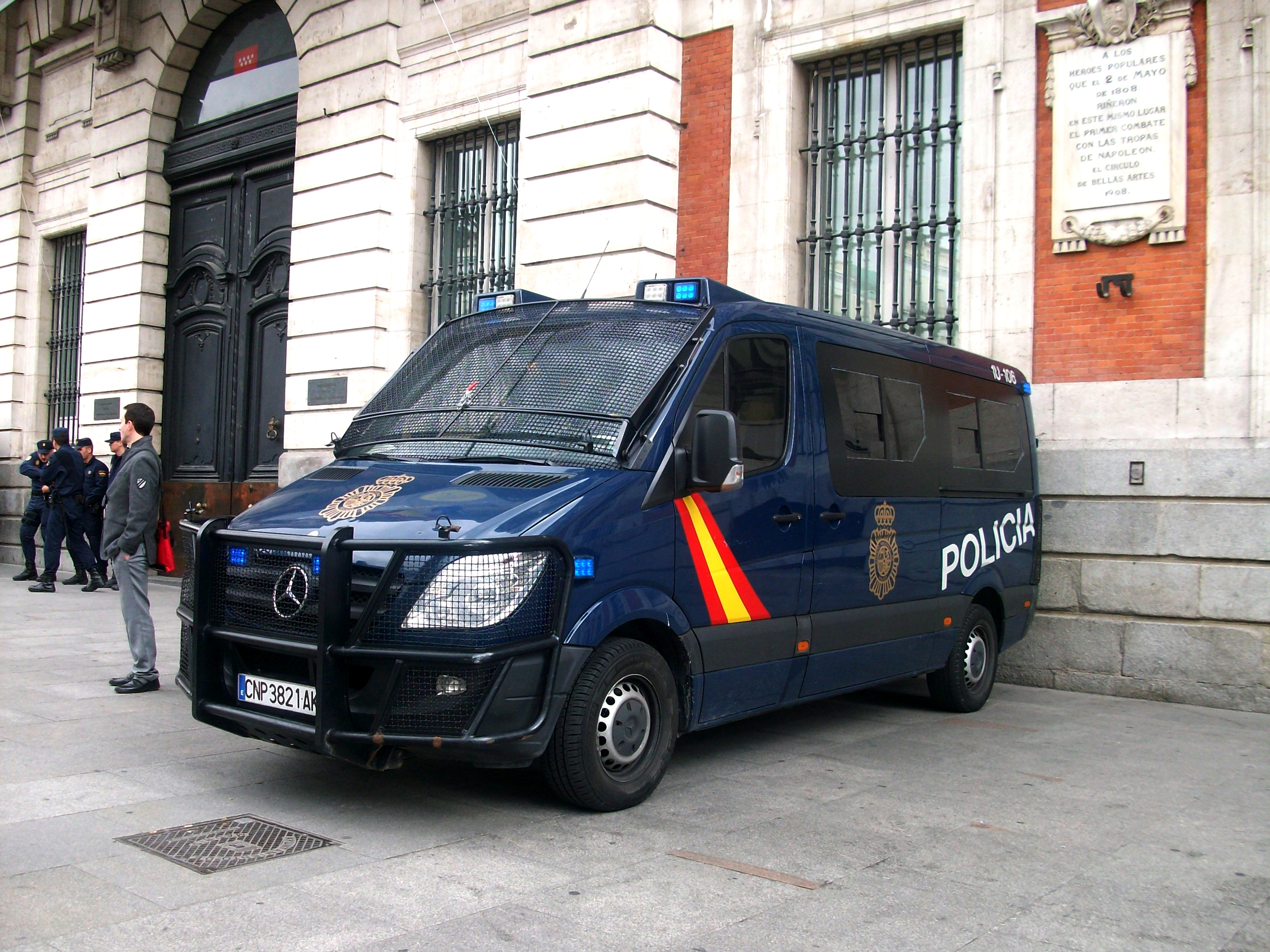 Vehicle of the Policía, in Madrid